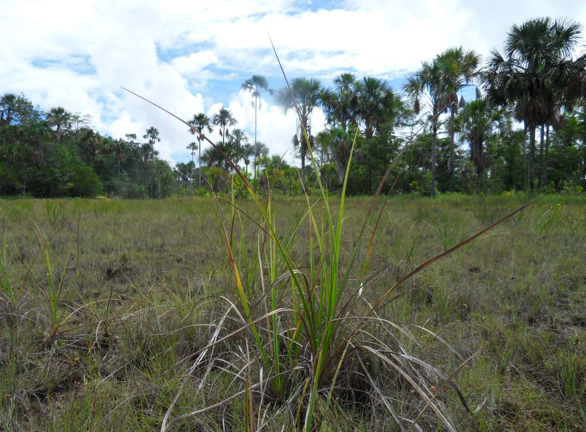 Aripo savannas in Trinidad. The foreground shows the savanna dominated by grasses and sedges. The background shows the associated Marsh Forest and Palm Forest ecosystems.